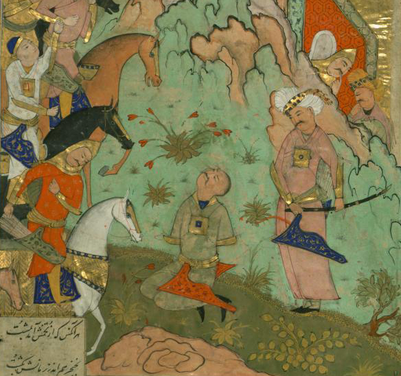 On this folio from Walters manuscript W.602, Ardashir executes Mihrak.